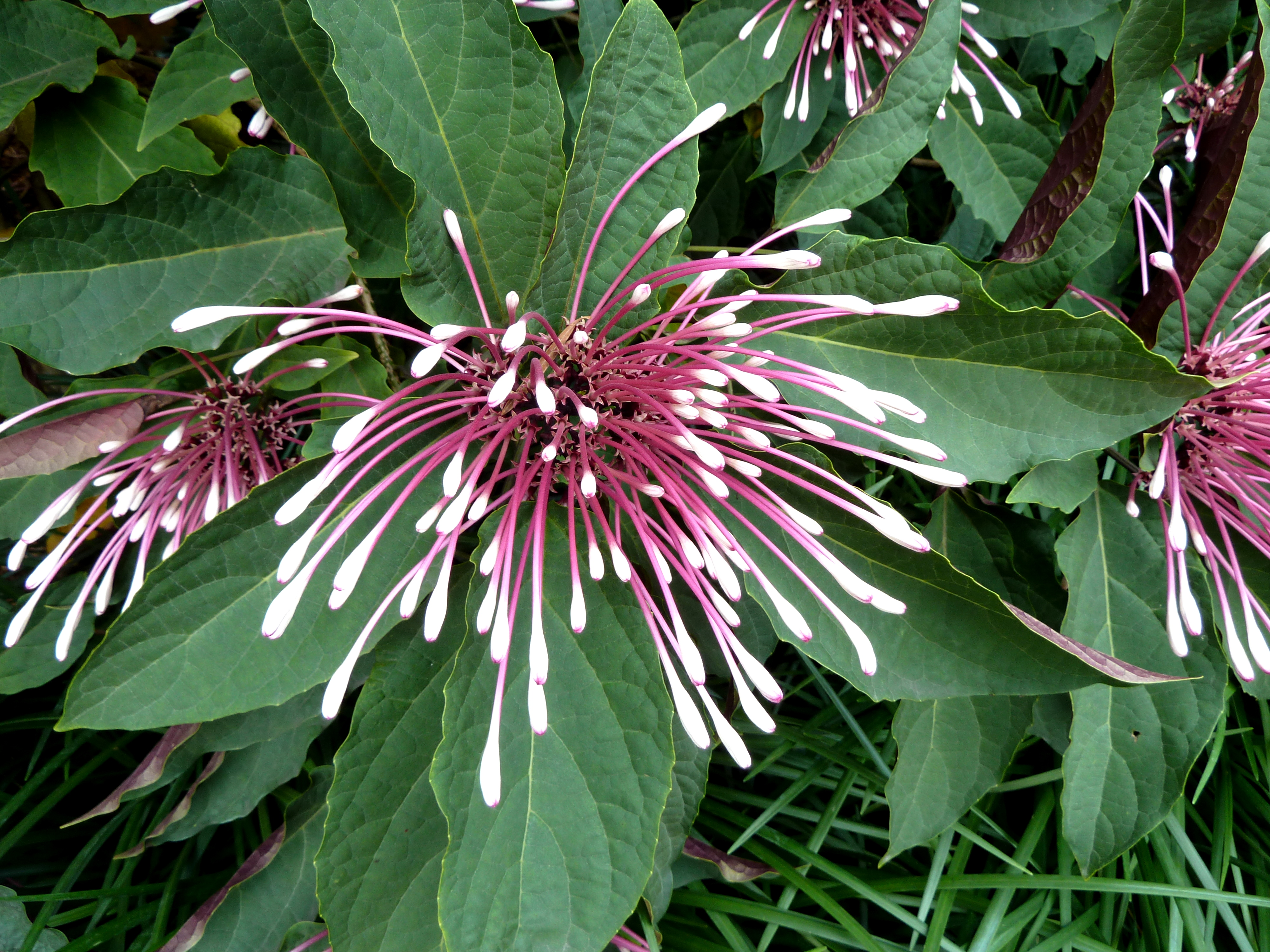 Clerodendrum quadriloculare at Fairchild Tropical Botanical Garden in south Miami, FL. I'd never seen this before, but I saw it just about everywhere I went on this trip.